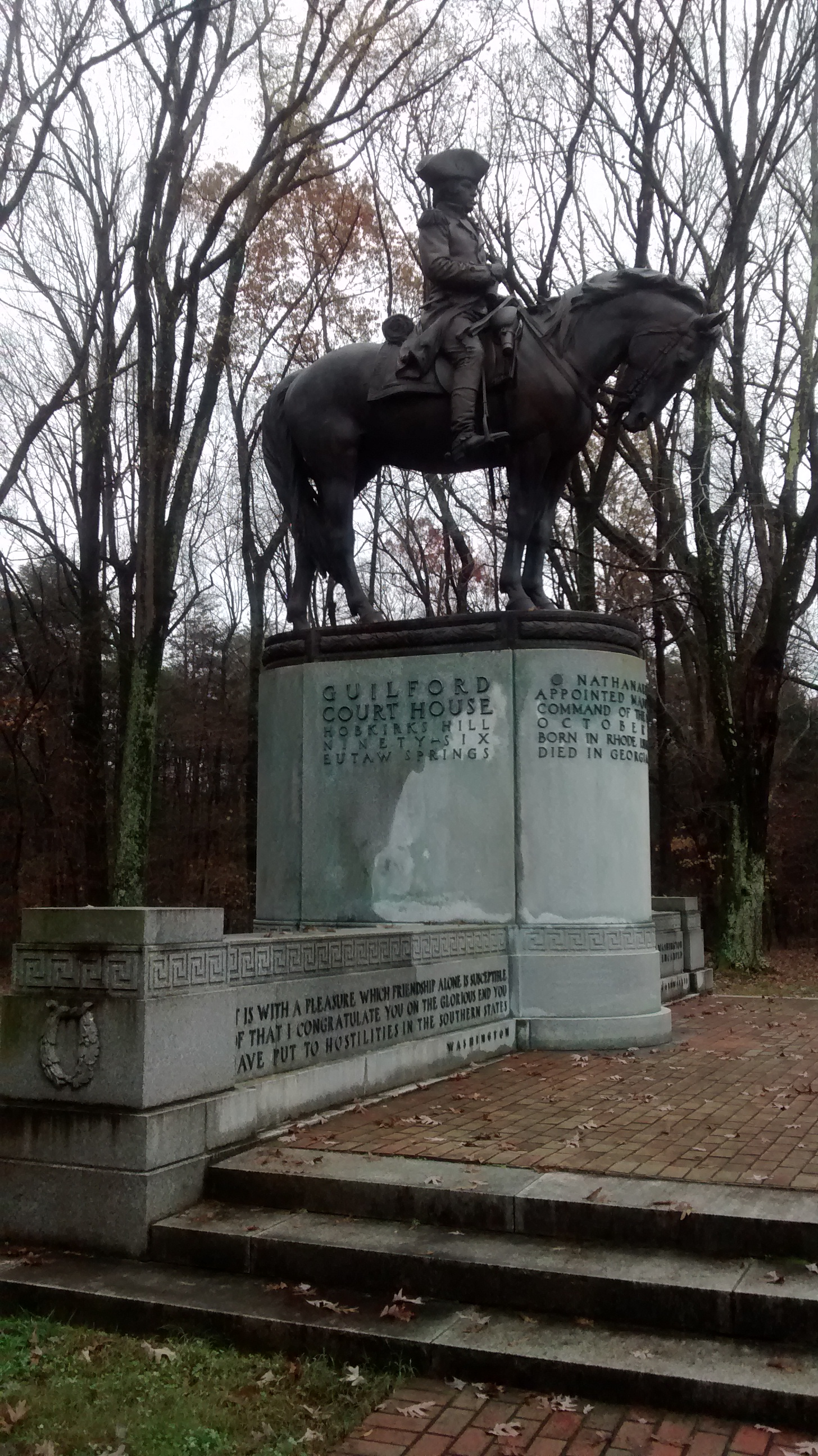 Monument to Gen. Nathanael Greene, who led the colonial troops at the Battle of Guilford Courthouse, March 15, 1781